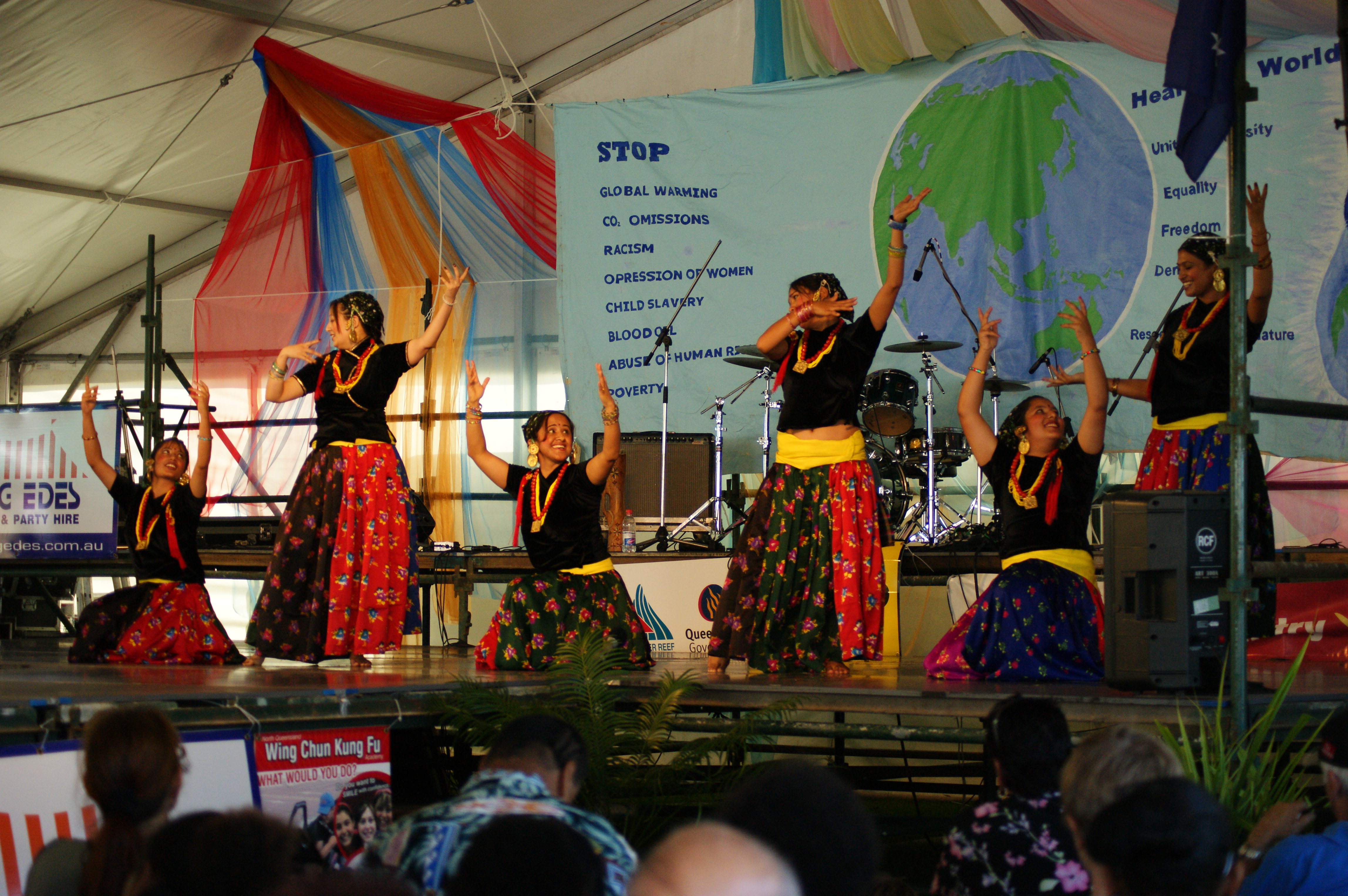 The Cultural Fest in The Strand in 2009 in Townsville